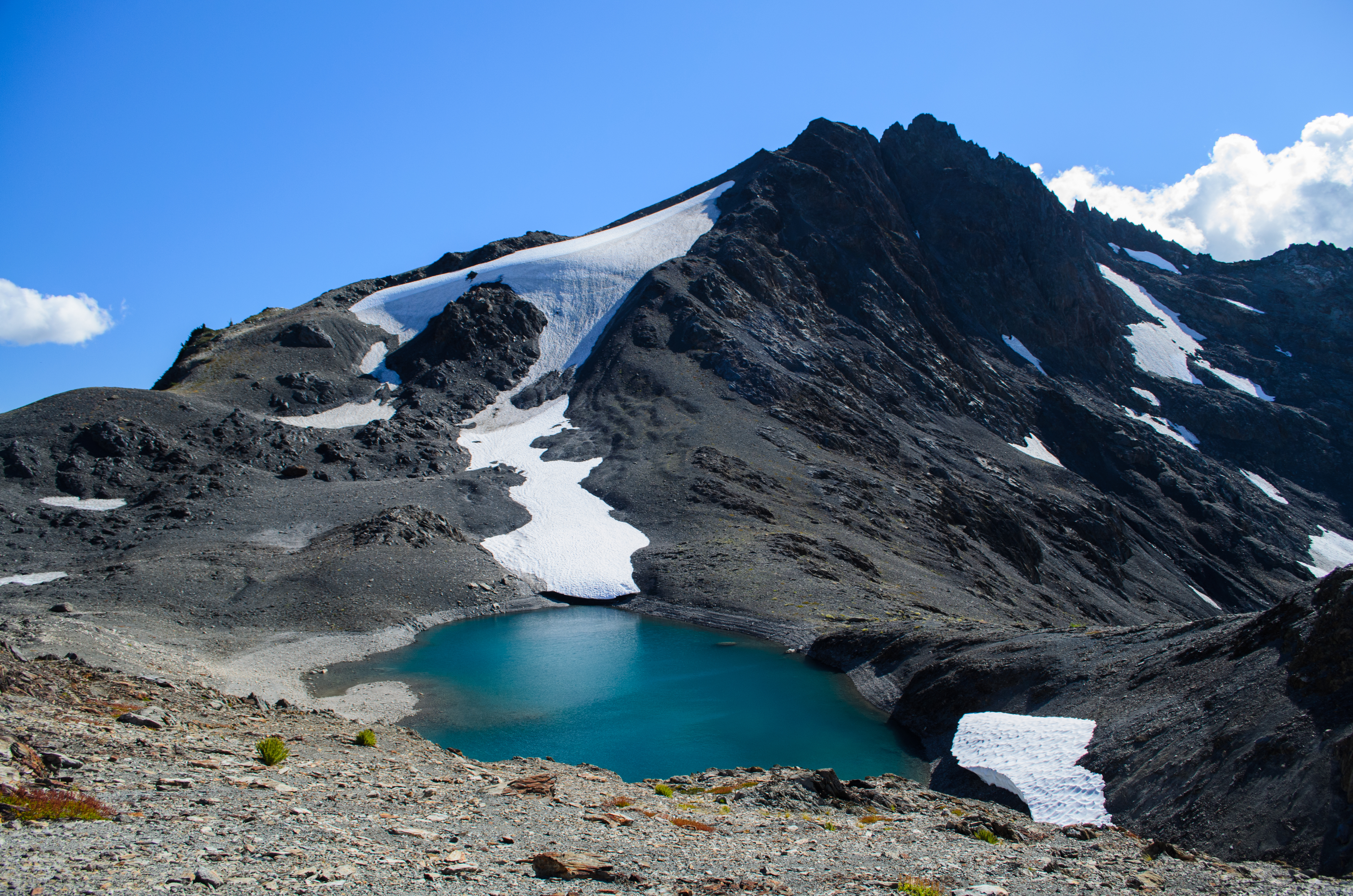 Mt. Pulitzer from northeast